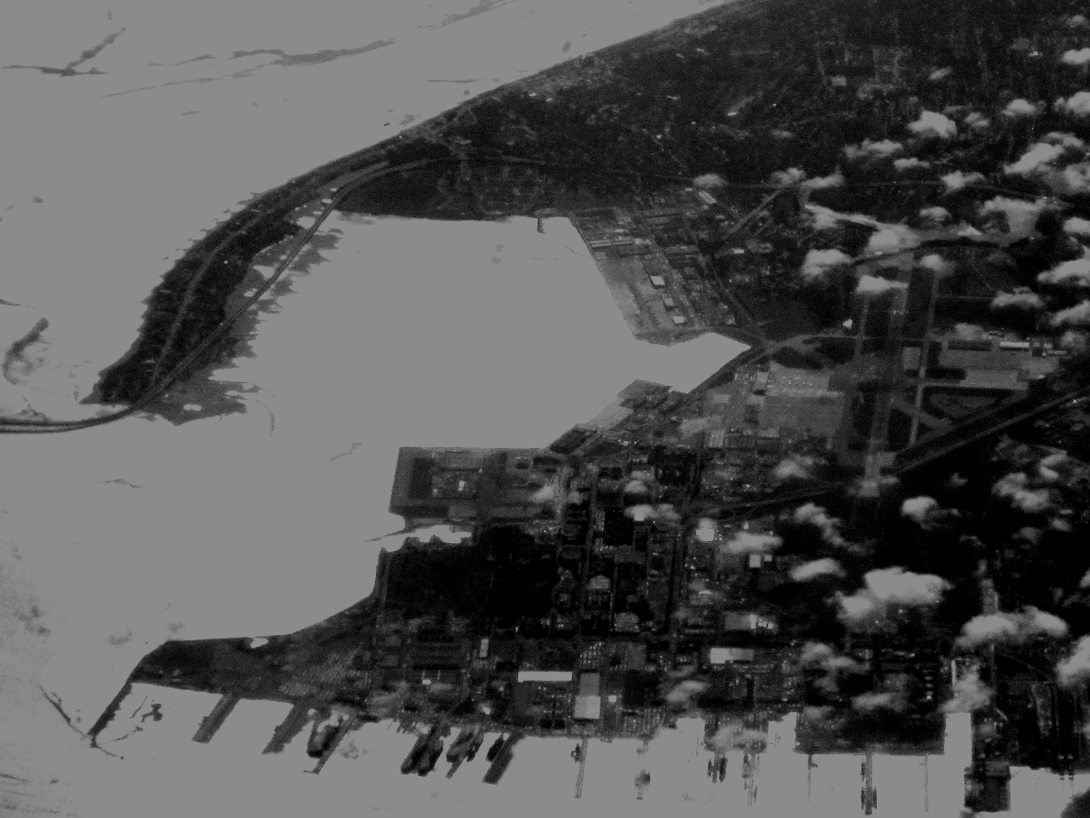 An aerial photograph of Naval Station Norfolk in Norfolk, Virginia. Taken in June 2009.